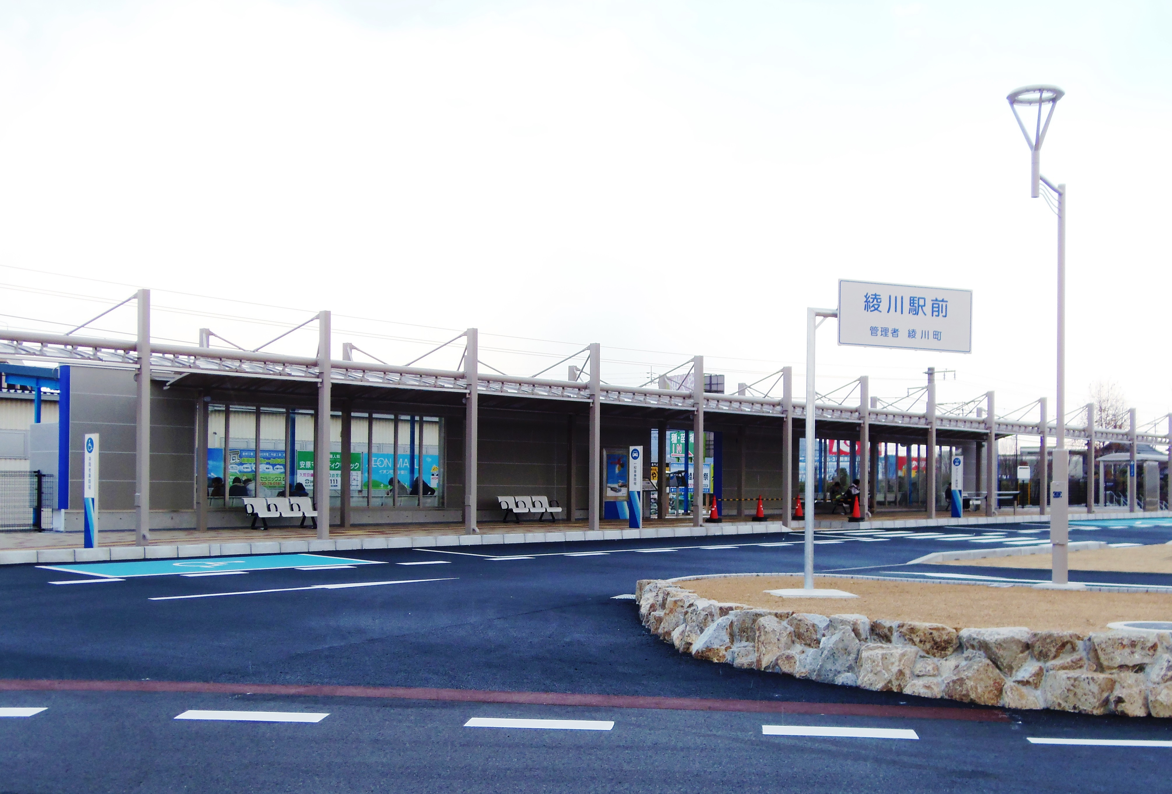 Forecourt of Ayagawa Station